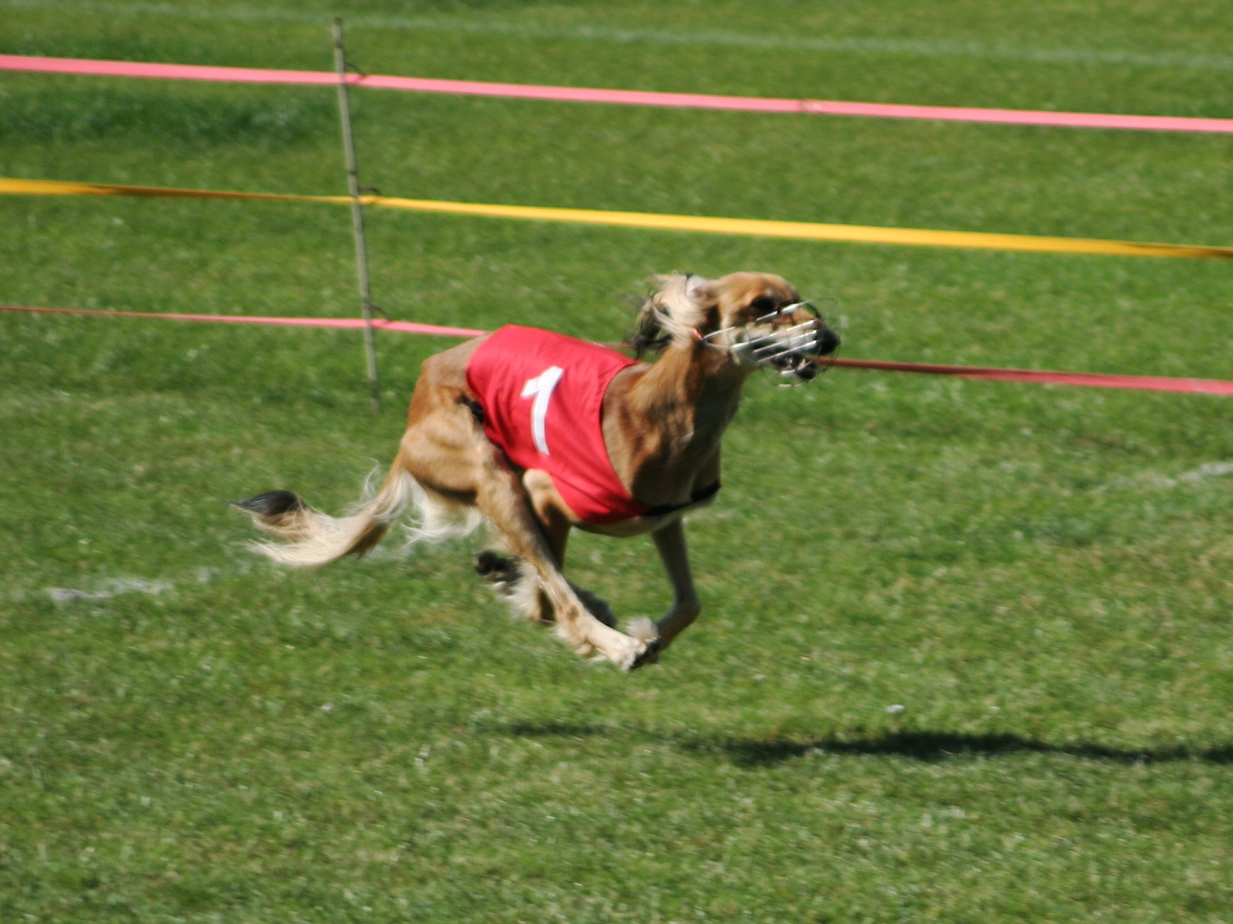 Arabian Hound - Saluki during the dog's racing in Bytom - Szombierki, Poland.